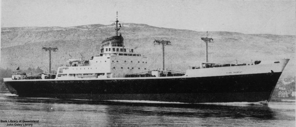 Clan Ramsay (ship) Refrigerated cargo motorship 'Clan Ramsay'. 11500 tons dw., built for the British and Commonwealth Shipping Co., Limited, London, by the Greenock Dockyard Co., Limited, Greenock, 1965. [Description supplied with photograph]. Built in 1965. 10,542 tons. Transferred to Union-Castle Line in 1977, renamed Winchester Castle[1]